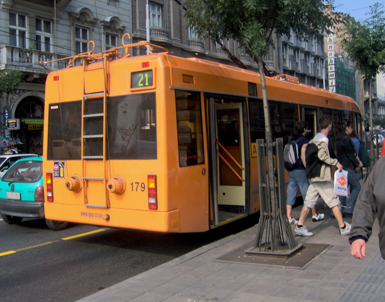 Trolleybus in Belgrade, Serbia.